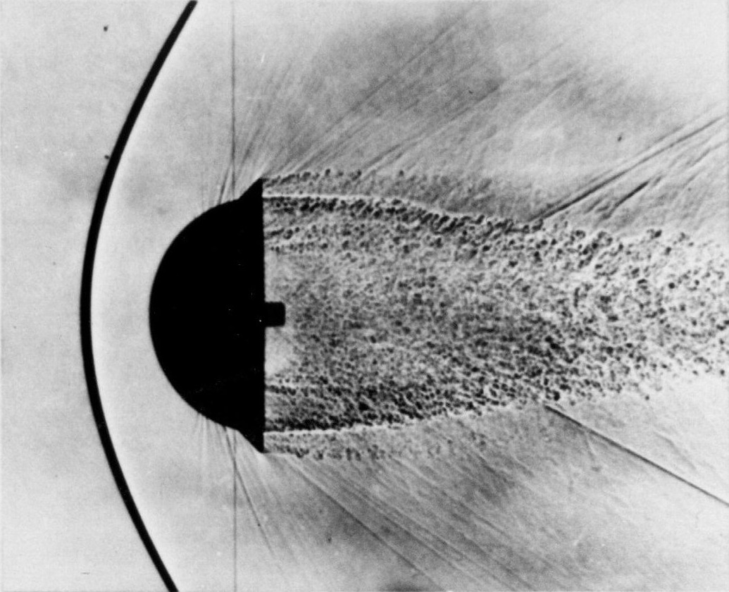 Schlieren photography of a bow shock wave produced by blunt re-entry body